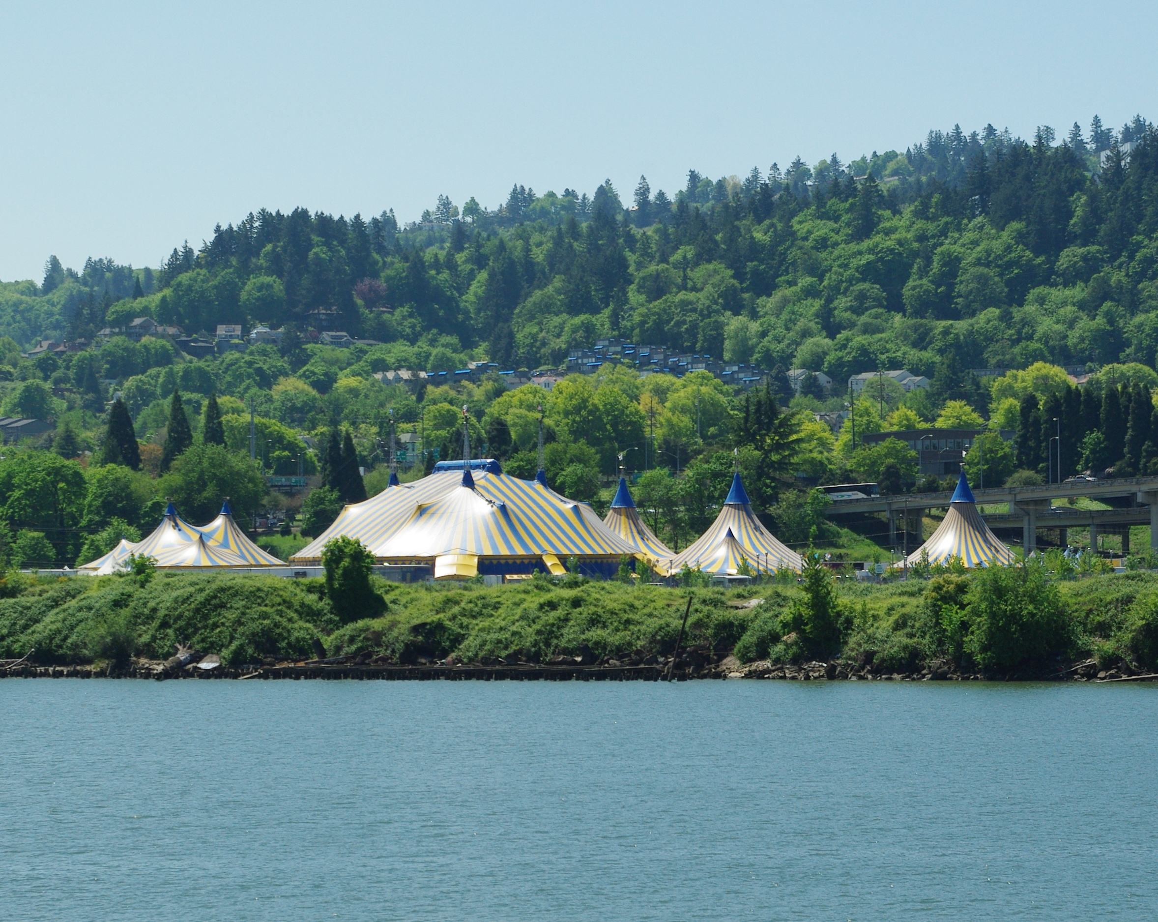 Tent for Cirque du Soleil's Kooza in the South Waterfront in Portland, Oregon.